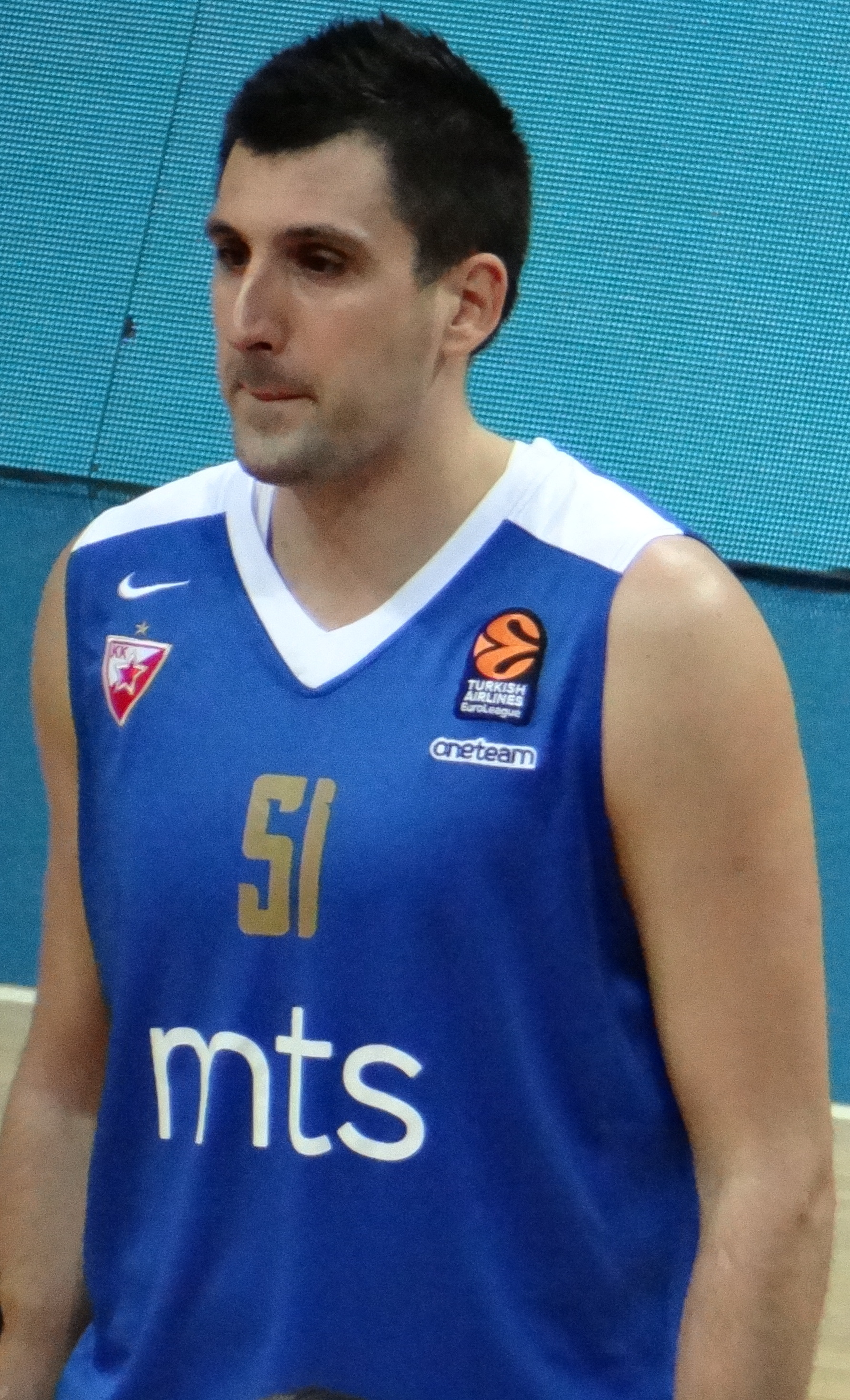 Milko Bjelica 51 KK Crvena zvezda 20171219